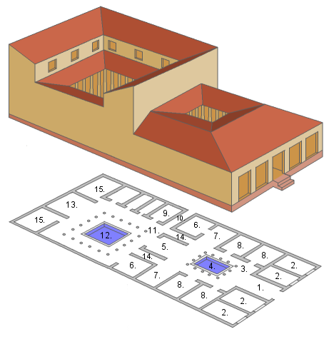 Ancient Roman dwelling, a domus.